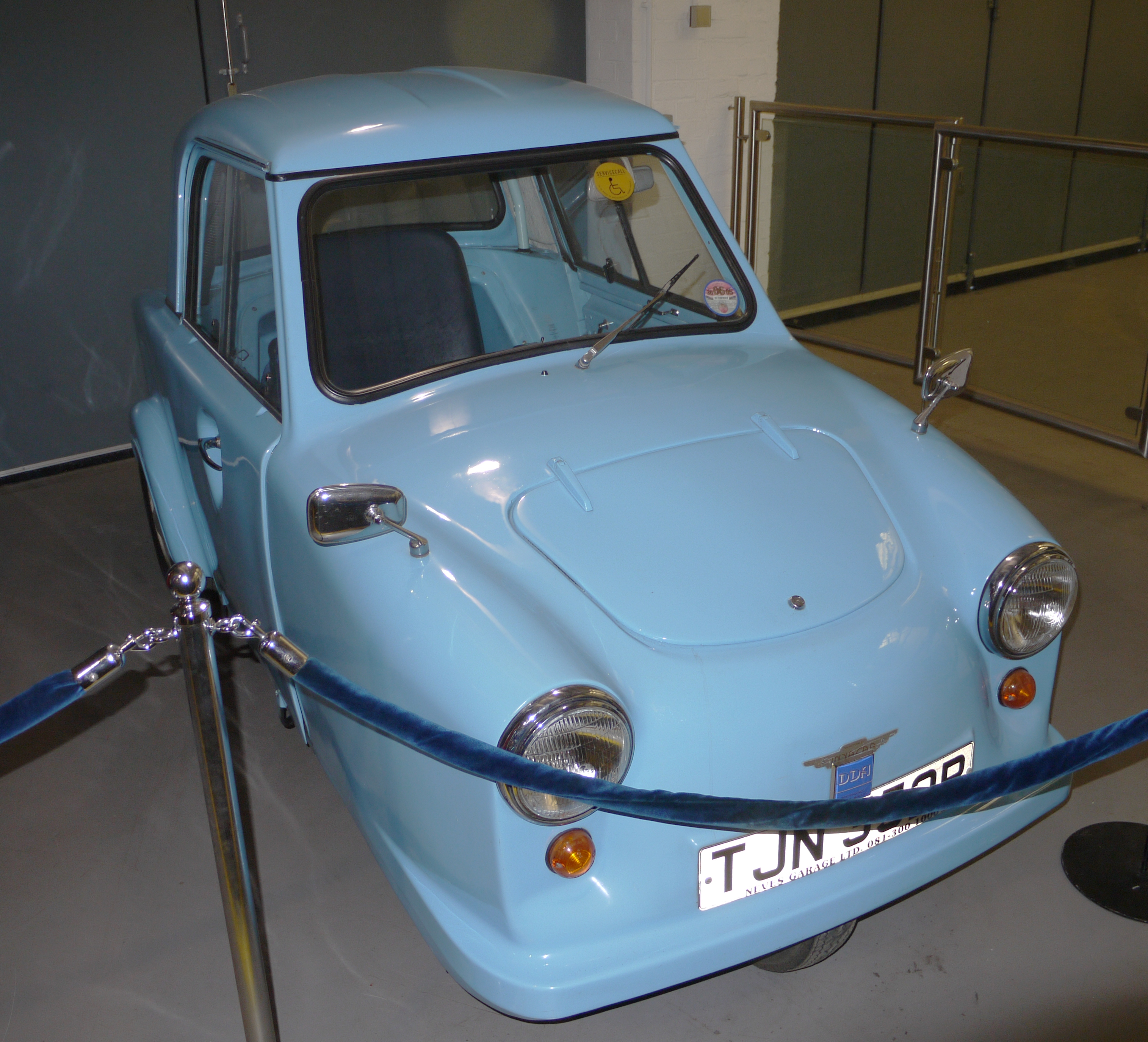 photo of a model 70 Thundersley Invacar